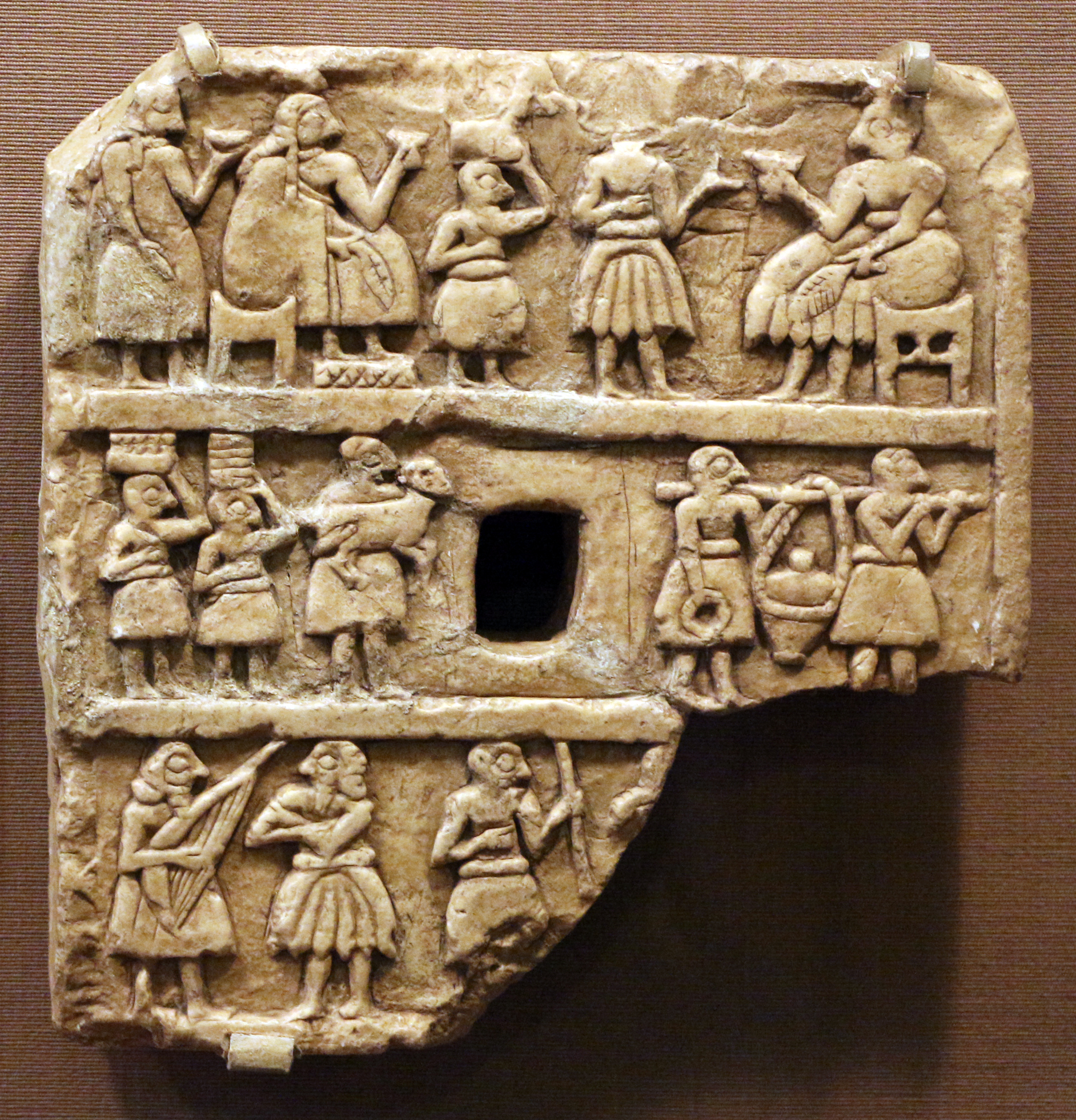 Mesopotamian antiquities in the Oriental Institute Museum